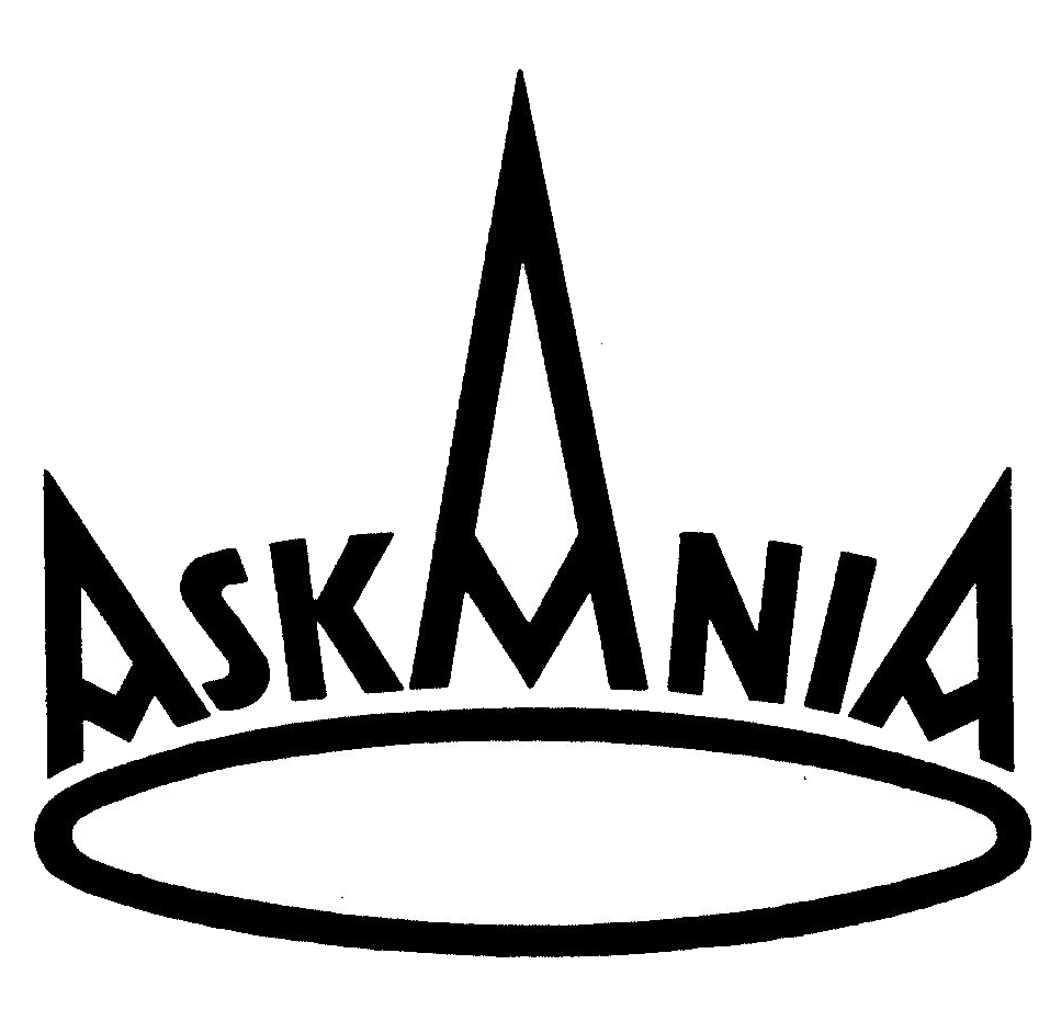 Early Logo of the works of ASKANIA WERKE AG Berlin Friedenau (1921)